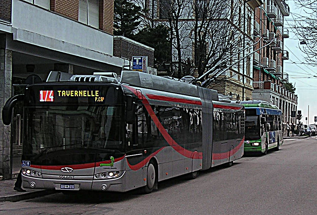 Ancona trolleybus 010, an articulated Solaris "Trollino", at the Piazza IV Novembre terminus of route "1/4" in 2013.